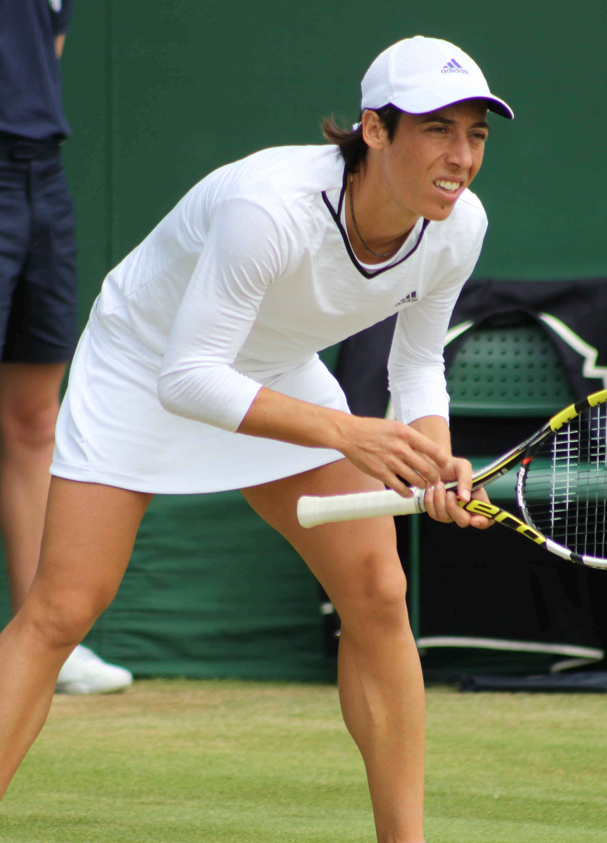 Francesca Schiavone at the 2013 Wimbledon Championships